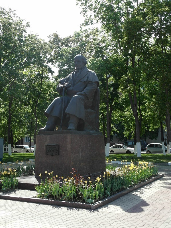 It is a photo of Schepkin Monument in Belgorod